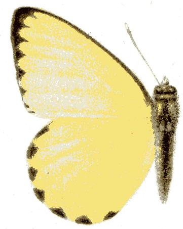 SeitzFaunaAfricana Dixeia cebron (Ward, 1871)